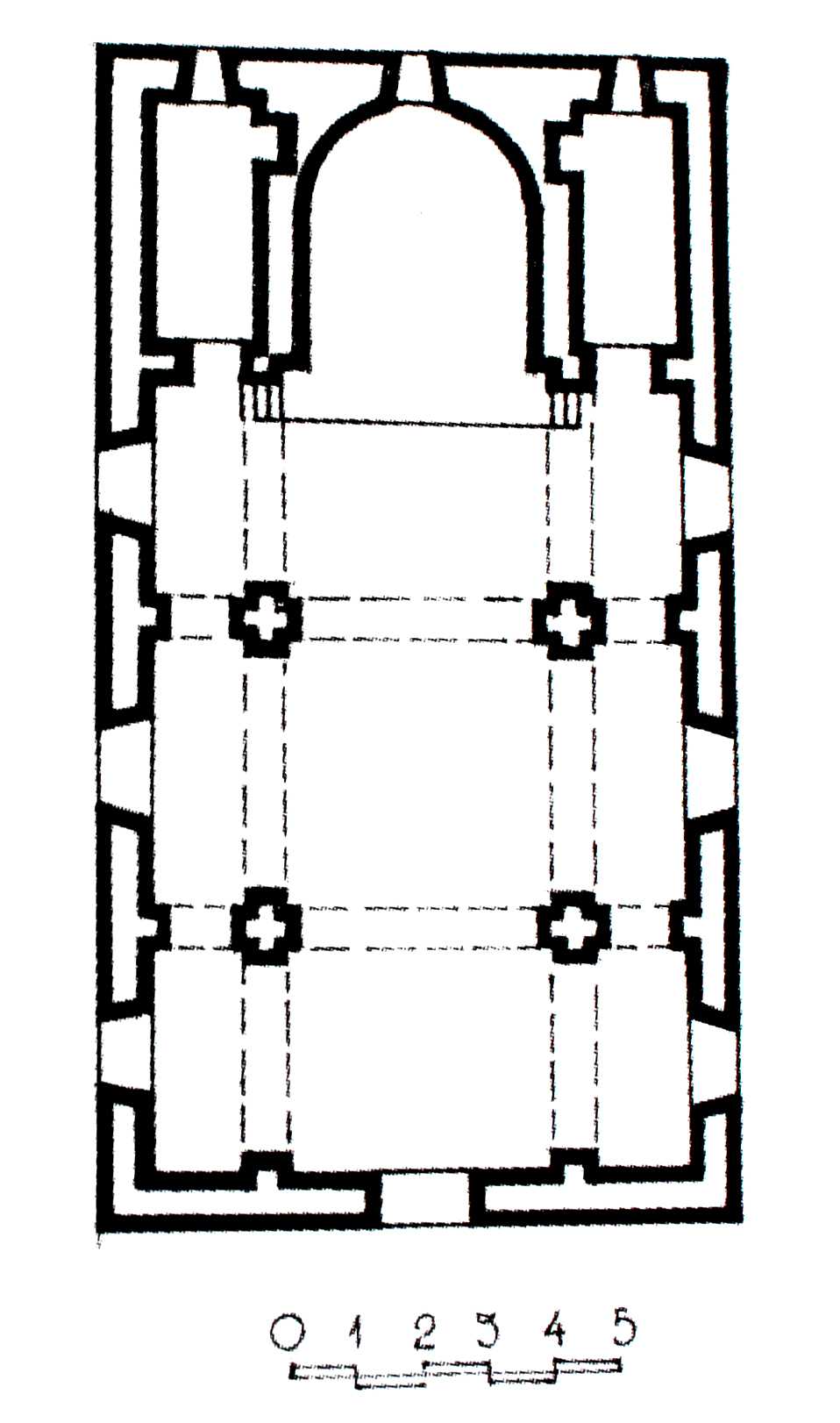 Plan of St. Grigoris bazilica in Amaras monastery